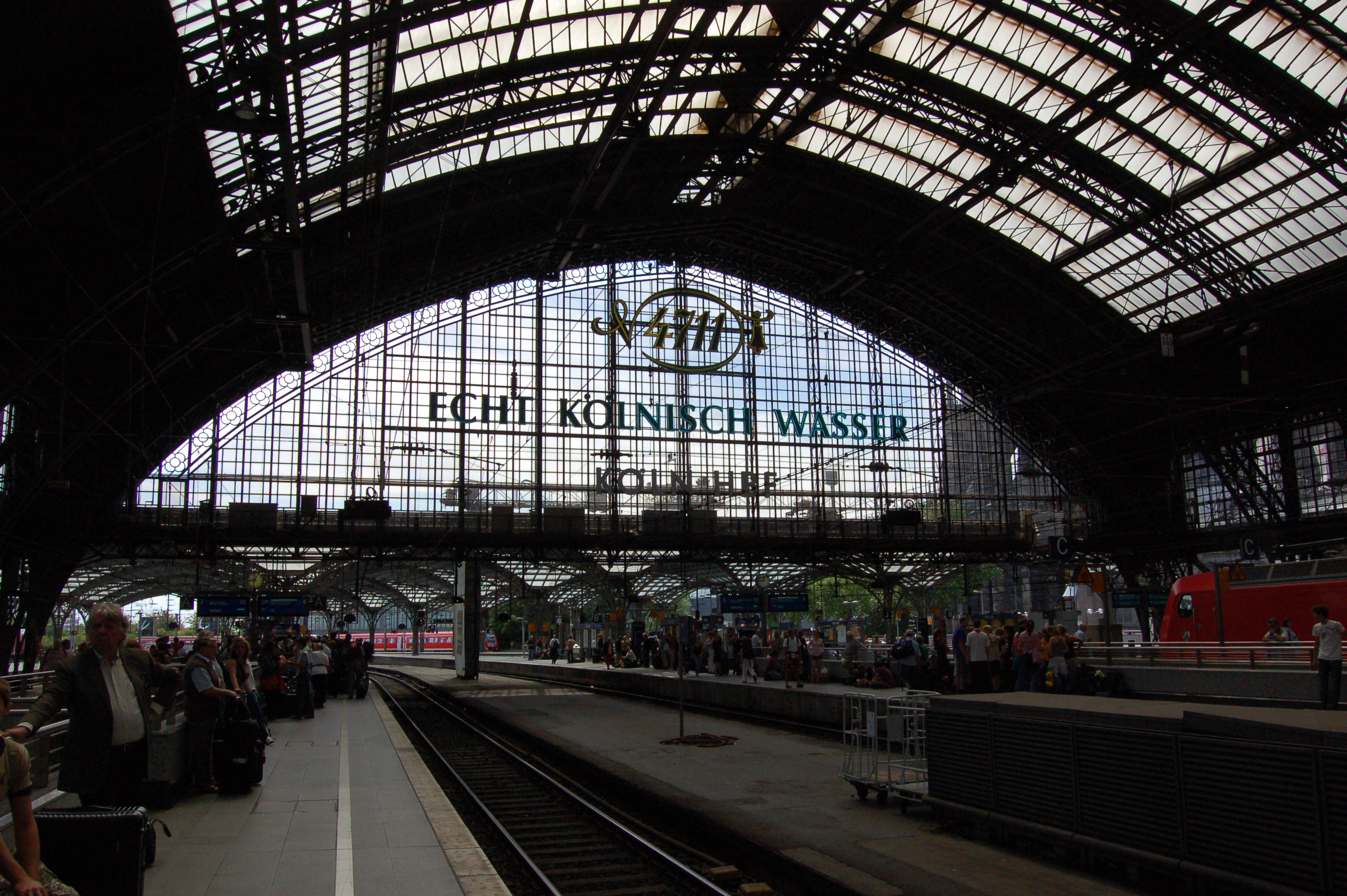 Cologne railroad station